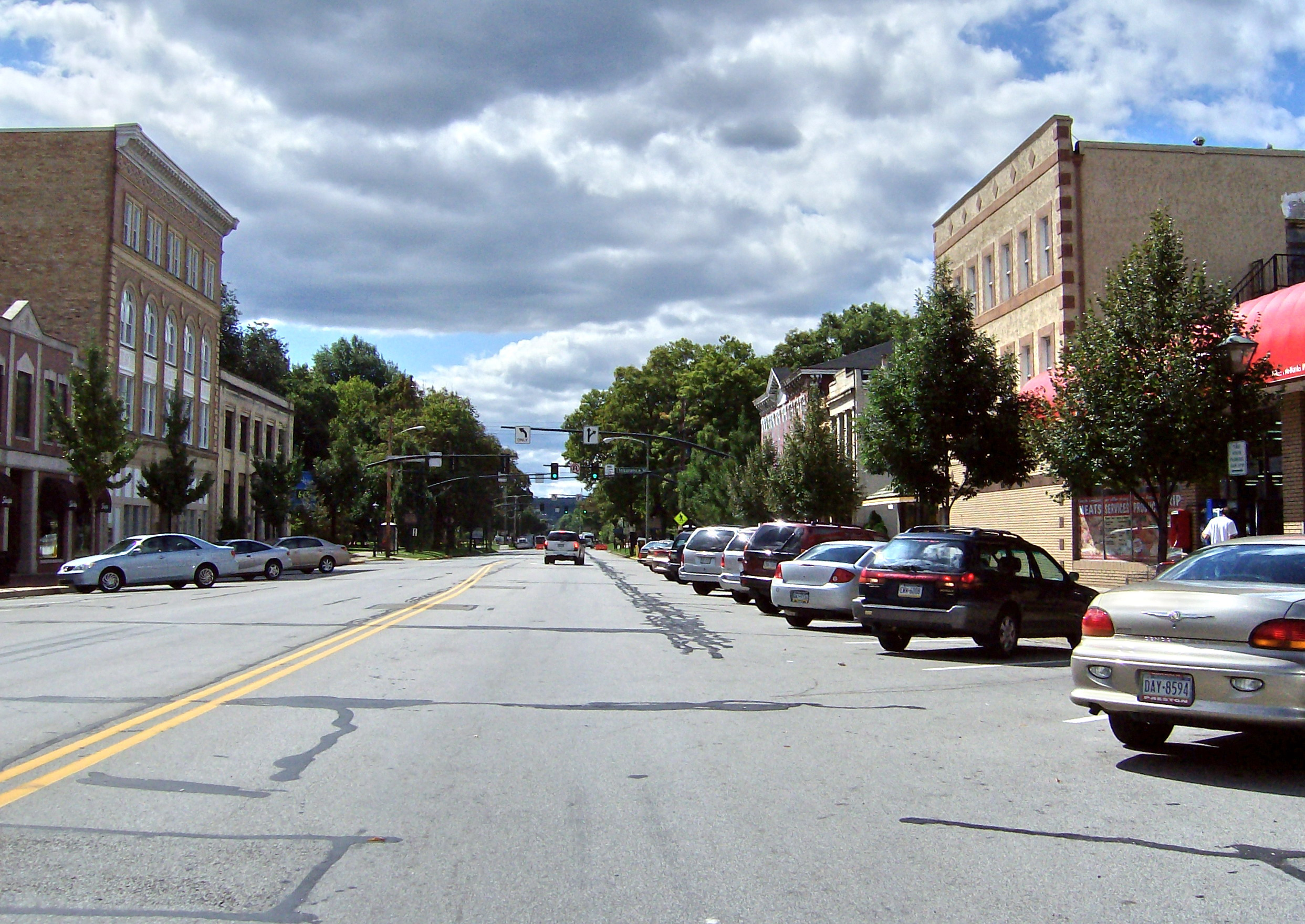 Westward along Third Street (Pennsylvania Route 68) in downtown Beaver, Pennsylvania, United States. The buildings depicted are part of the Beaver Historic District, which is listed on the National Register of Historic Places.